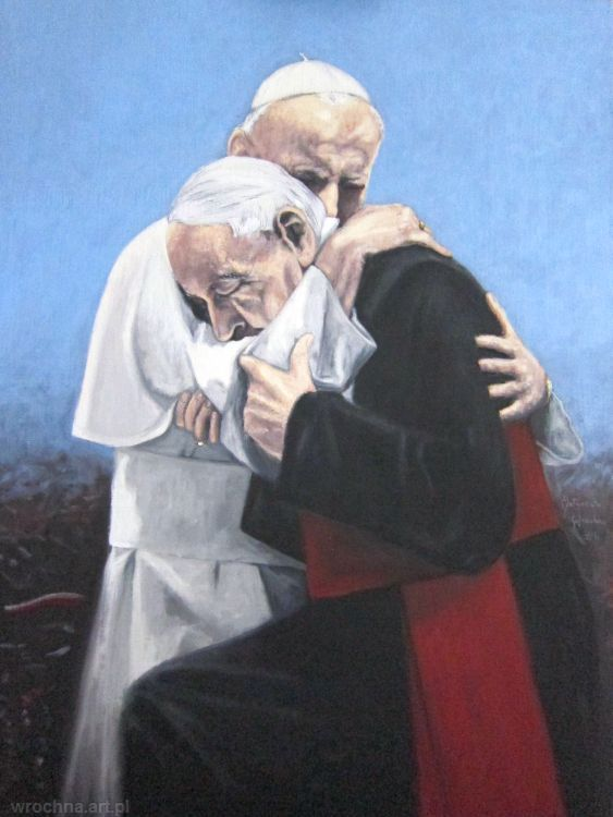 John Paul II and Cardinal Stefan Wyszyński, oil on canvas by Małgorzata Wrochna